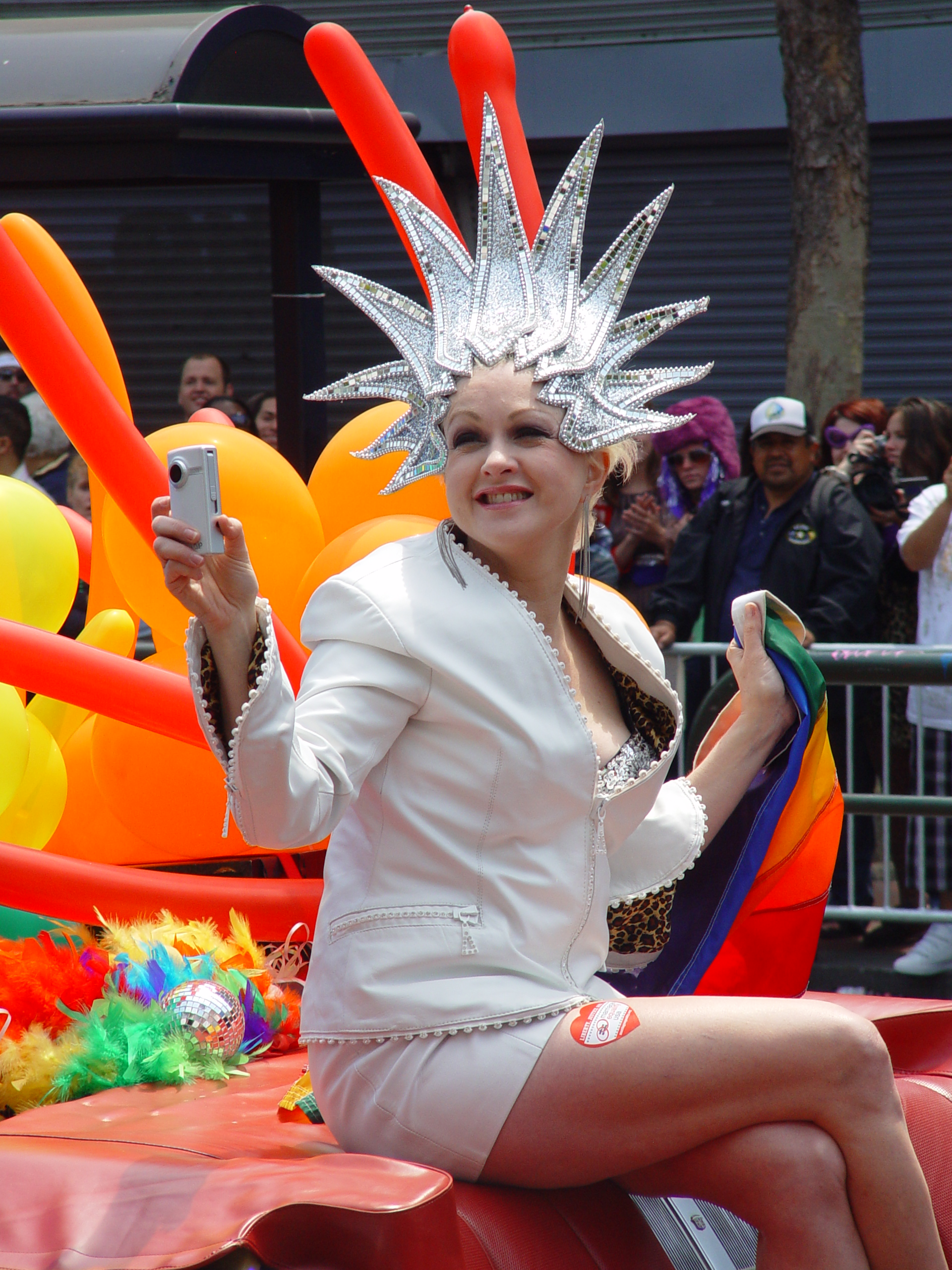 Cyndi Lauper at the 2008 Gay Parade San Francisco, CA